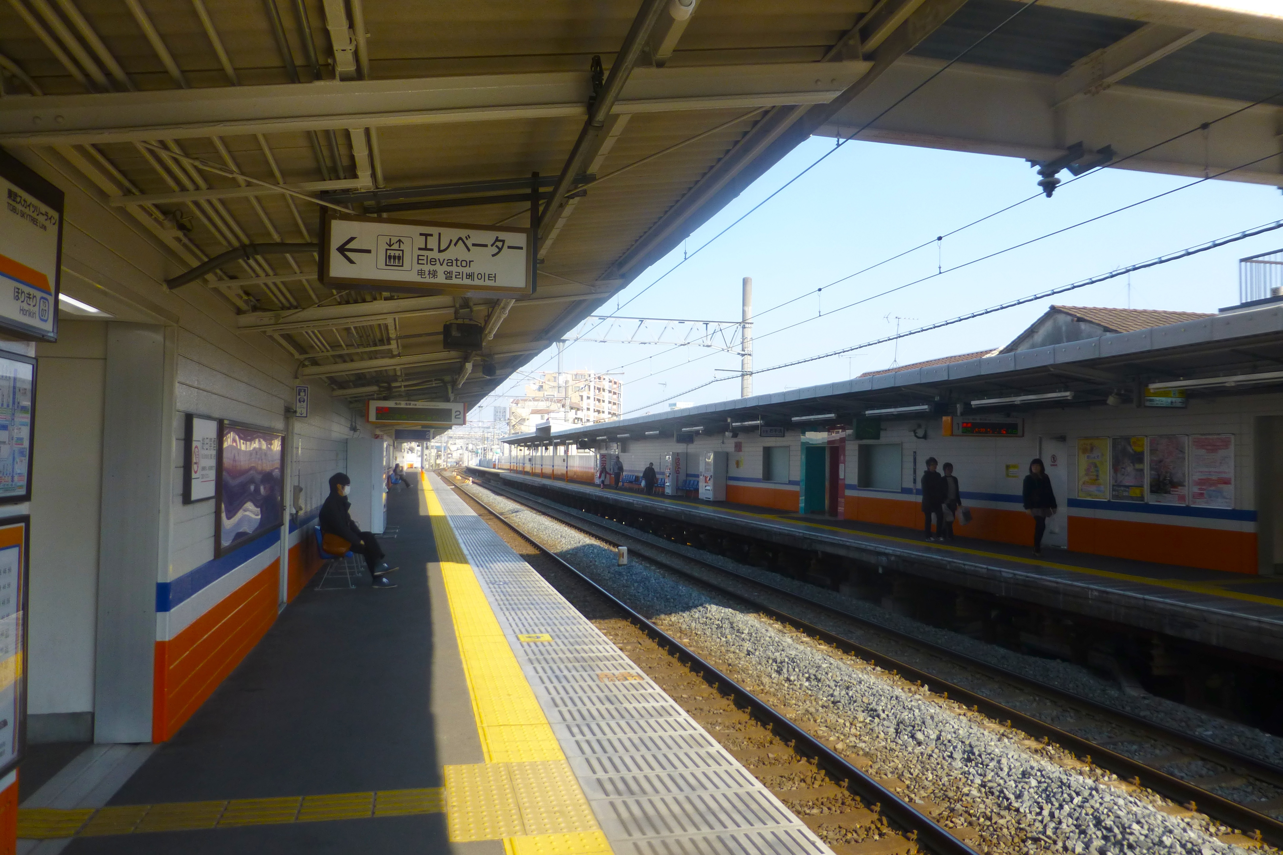 Ushida Station (牛田駅 Ushida-eki) is a railway station on the Tobu Skytree Line in Adachi, Tokyo, Japan, operated by the private railway operator Tobu Railway. These are the station platforms.